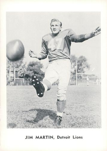 A promotional image of Detroit Lions player Jim Martin.